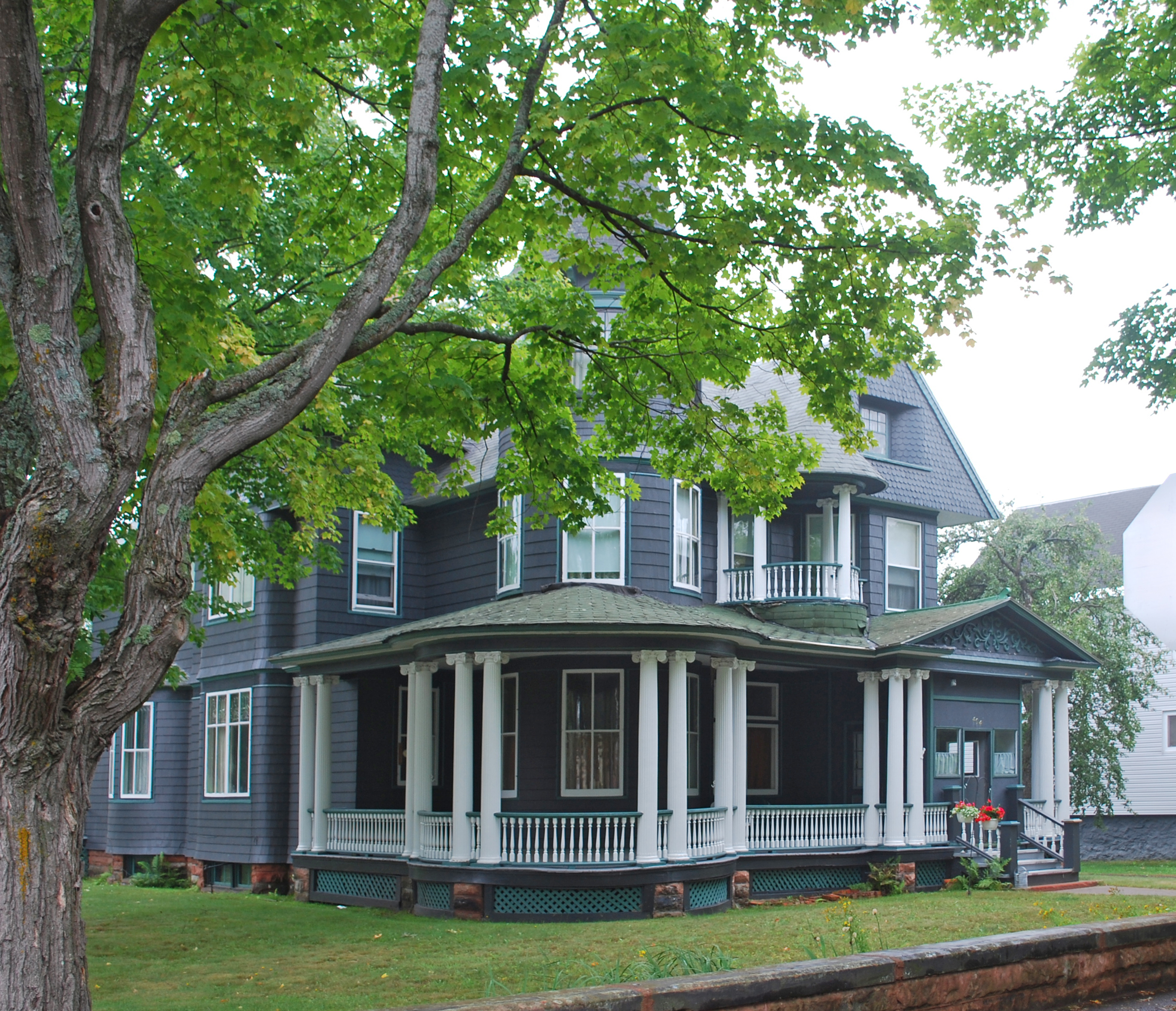 Victorian house in the Laurium Historic District — Laurium, Keweenaw National Historical Park, Michigan.